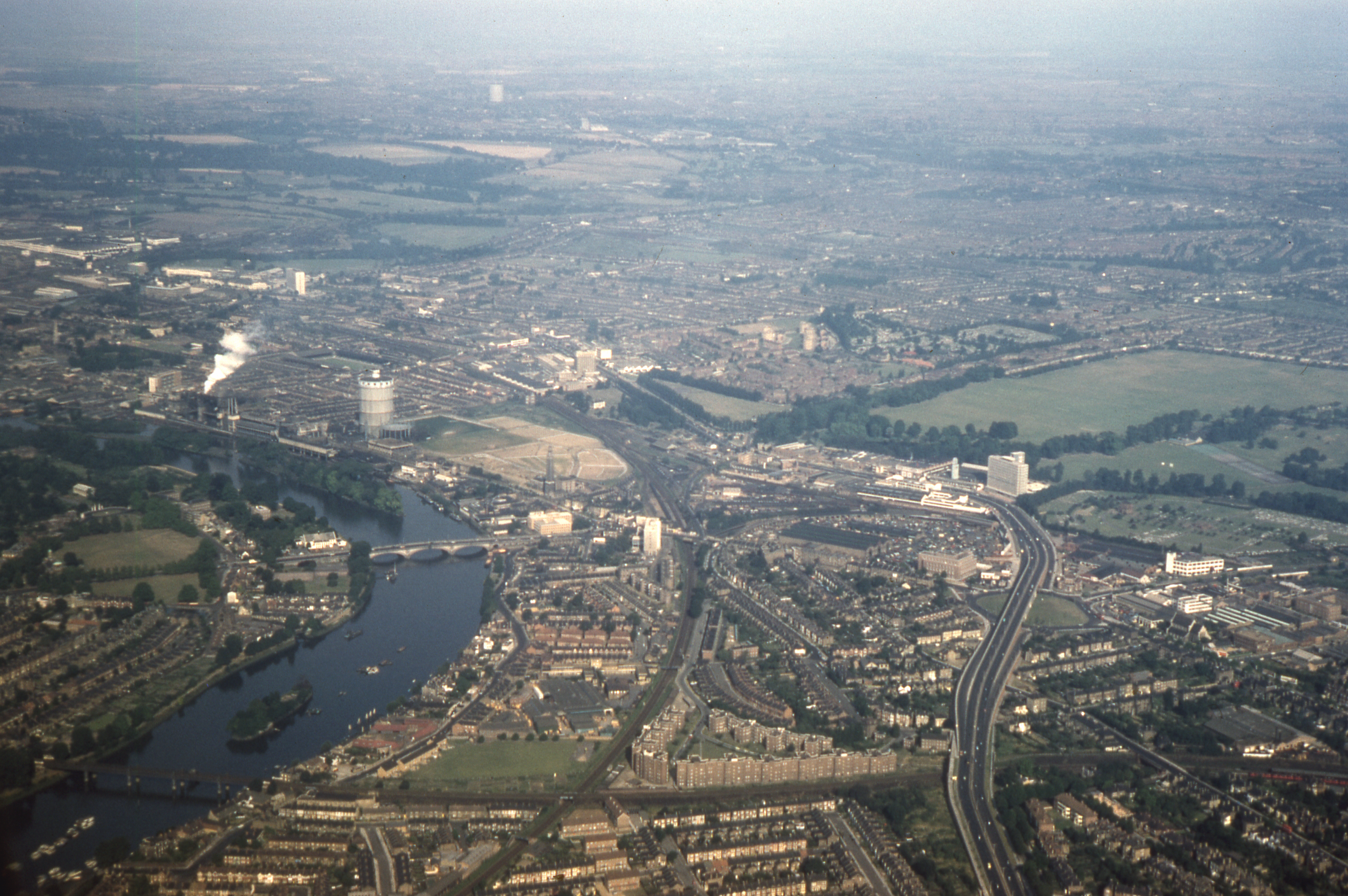 Aerial photograph of Chiswick, London, England, with the Kew Bridge in view. 1961